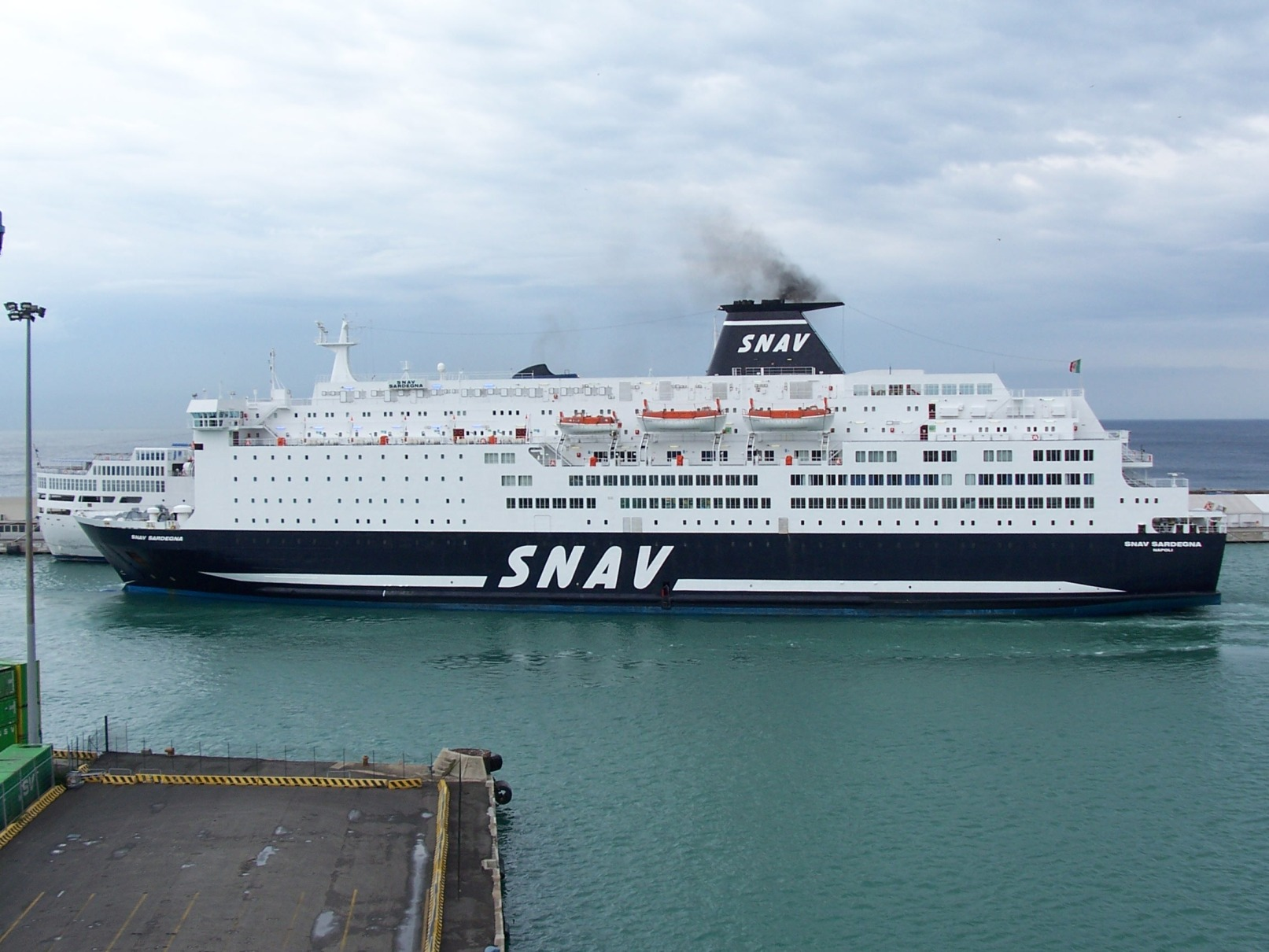 Snav Sardegna (Ex Olau Ollandia) cruiseferry of SNAV into Civitavecchia Harbour IMO Number: 8712518 MMSI Number: 247163900 Callsign: IBUB Length: 161 m Beam: 30 m